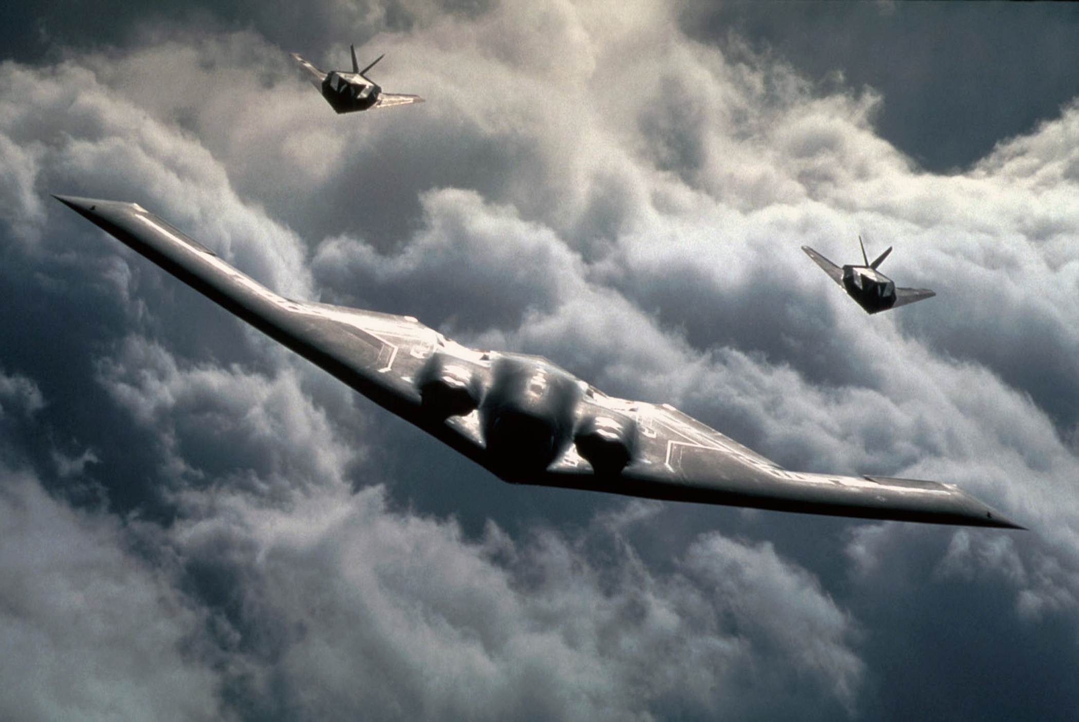 Aug. 7, 2003 -- A U.S. Air Force B-2 Spirit and two B-117A Nighthawks fly in formation. The B-2 Spirit is a multi-role bomber capable of delivering both conventional and nuclear munitions. A dramatic leap forward in technology, the bomber represents a major milestone in the U.S. bomber modernization program. The B-2 brings massive firepower to bear, in a short time, anywhere on the globe through previously impenetrable defenses. The F-117A Nighthawk is the world's first operational aircraft designed to exploit low-observable stealth technology. This precision-strike aircraft penetrates high-threat airspace and uses laser-guided weapons against critical targets. U.S. Air Force photo. (RELEASED)